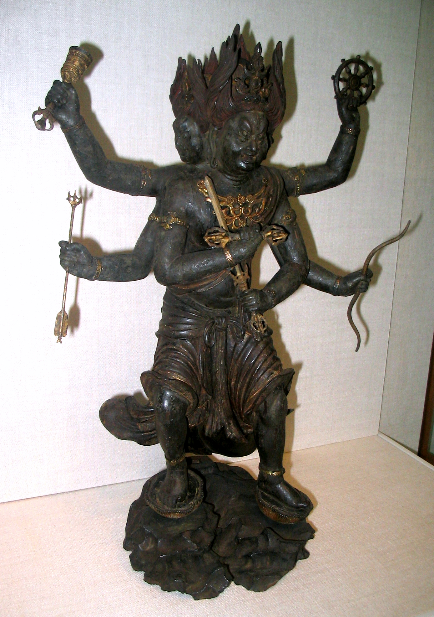 Kongo Yasha statue from 13th century Japan. Wood with gold ornaments. On exhibit at the Sackler Gallery at the Smithsonian Institution.